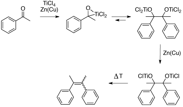 Reaction mechanism for the McMurry reaction as found in Chem. Commun., 1998, 2549–2554